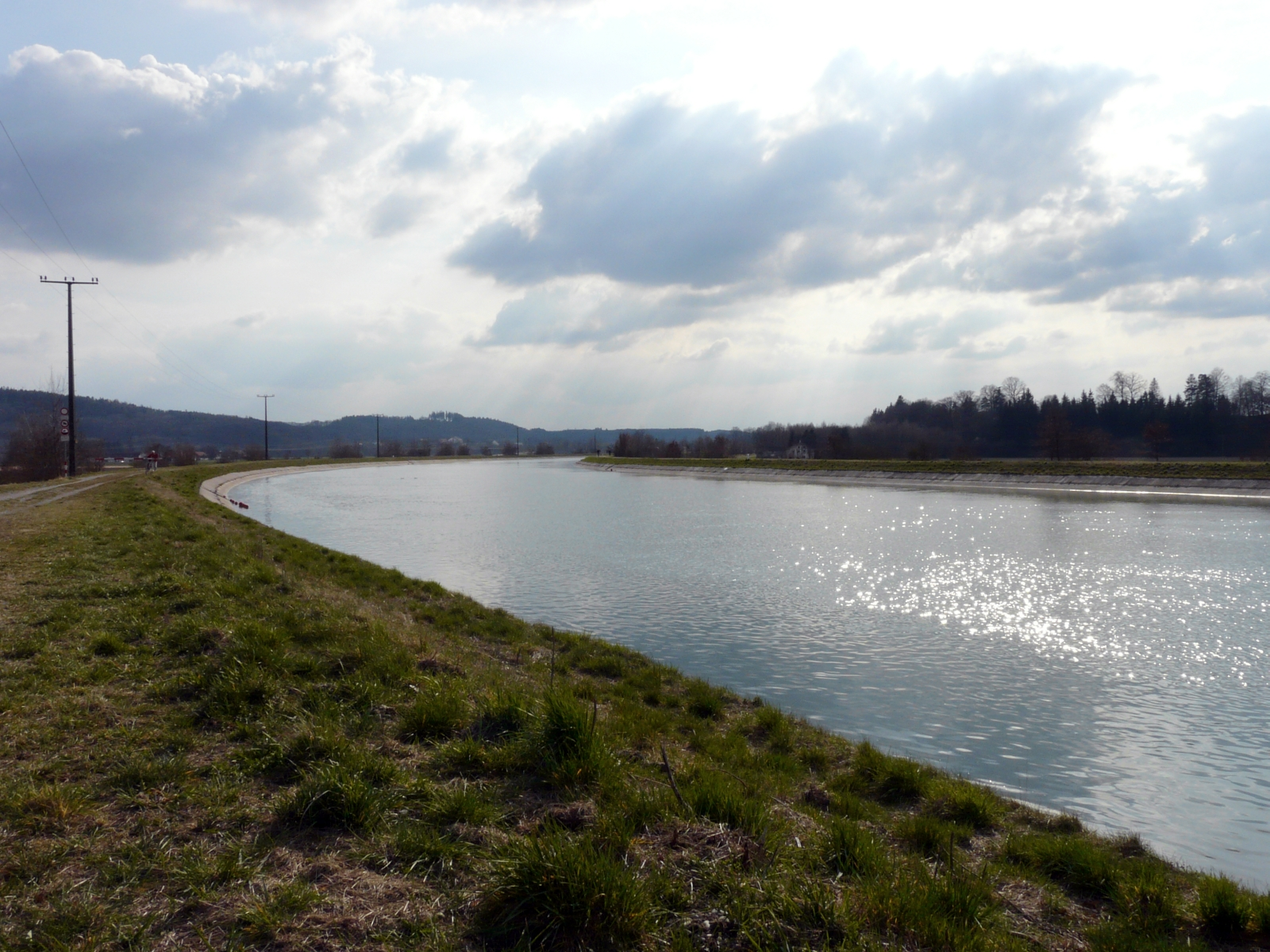 The Inn Canal in the district of Mühldorf near Winklham, a hamlet between Jettenbach and Kraiburg.